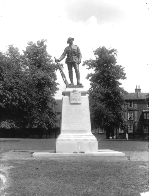 An early photograph of a war memorial in Winchester which was erected in 1922. Officers and riflemen of the King's Royal Rifle Corps are honoured on Cathedral Green in the city which had been home to the Rifle Depot since 1858.